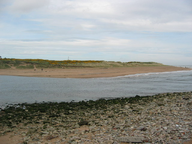 Mouth of the River Don, Aberdeen. Effects of longshore drift shown.